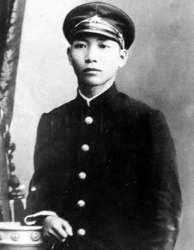 Kojin Shimomura (1884–1955)